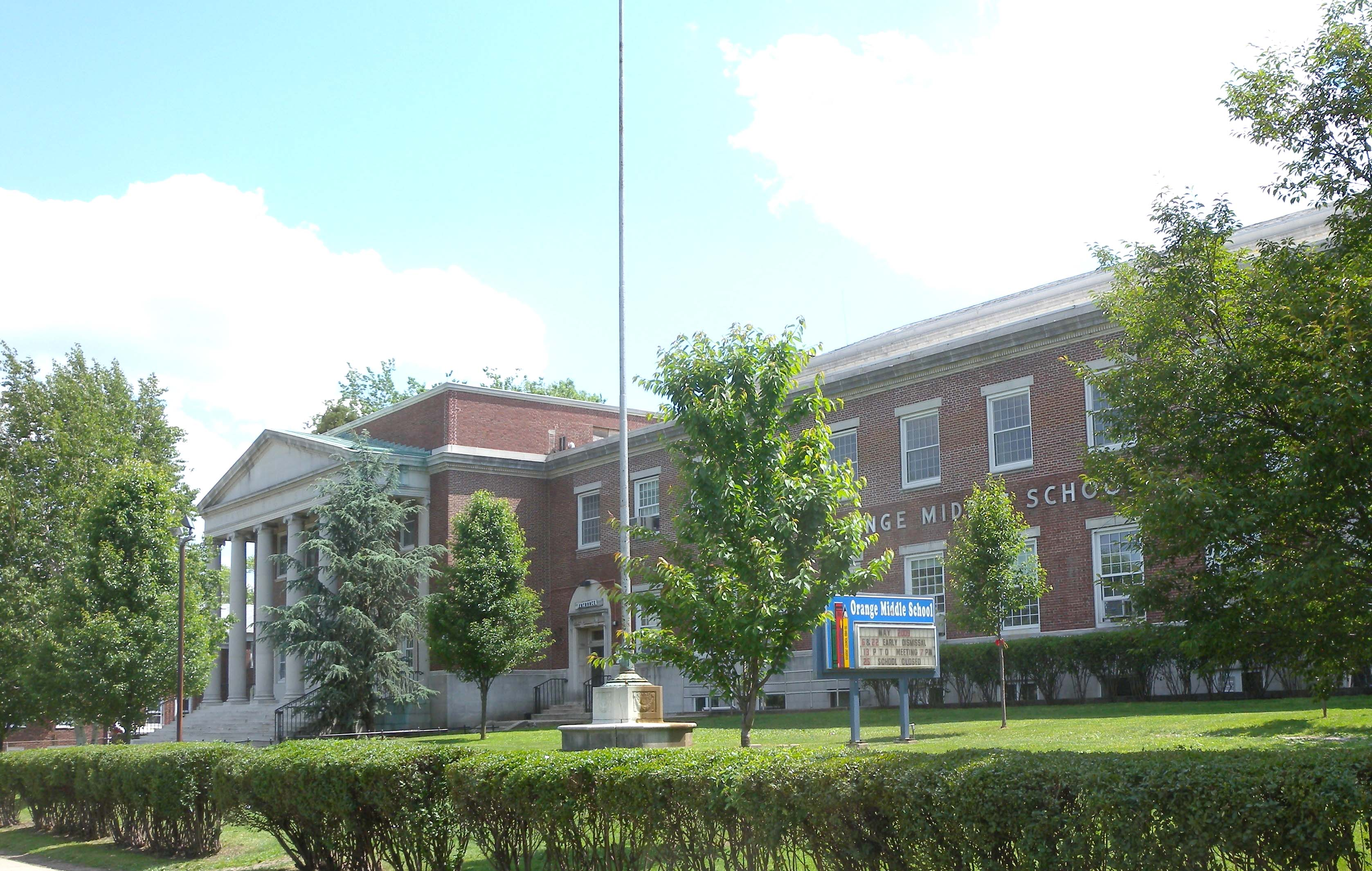 Looking southeast across Central Avenue at Orange Middle School on a sunny midday.